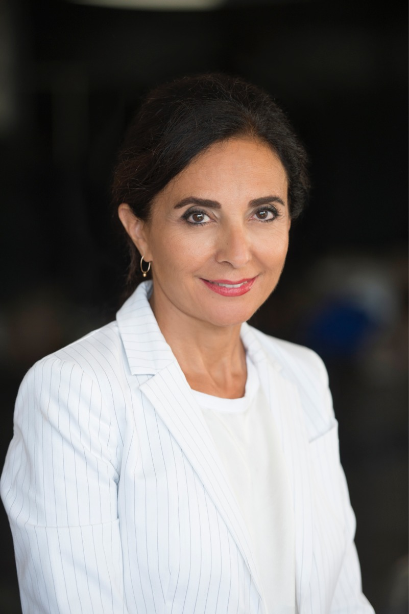 Photo of Vera El Khoury Lacoeuilhe